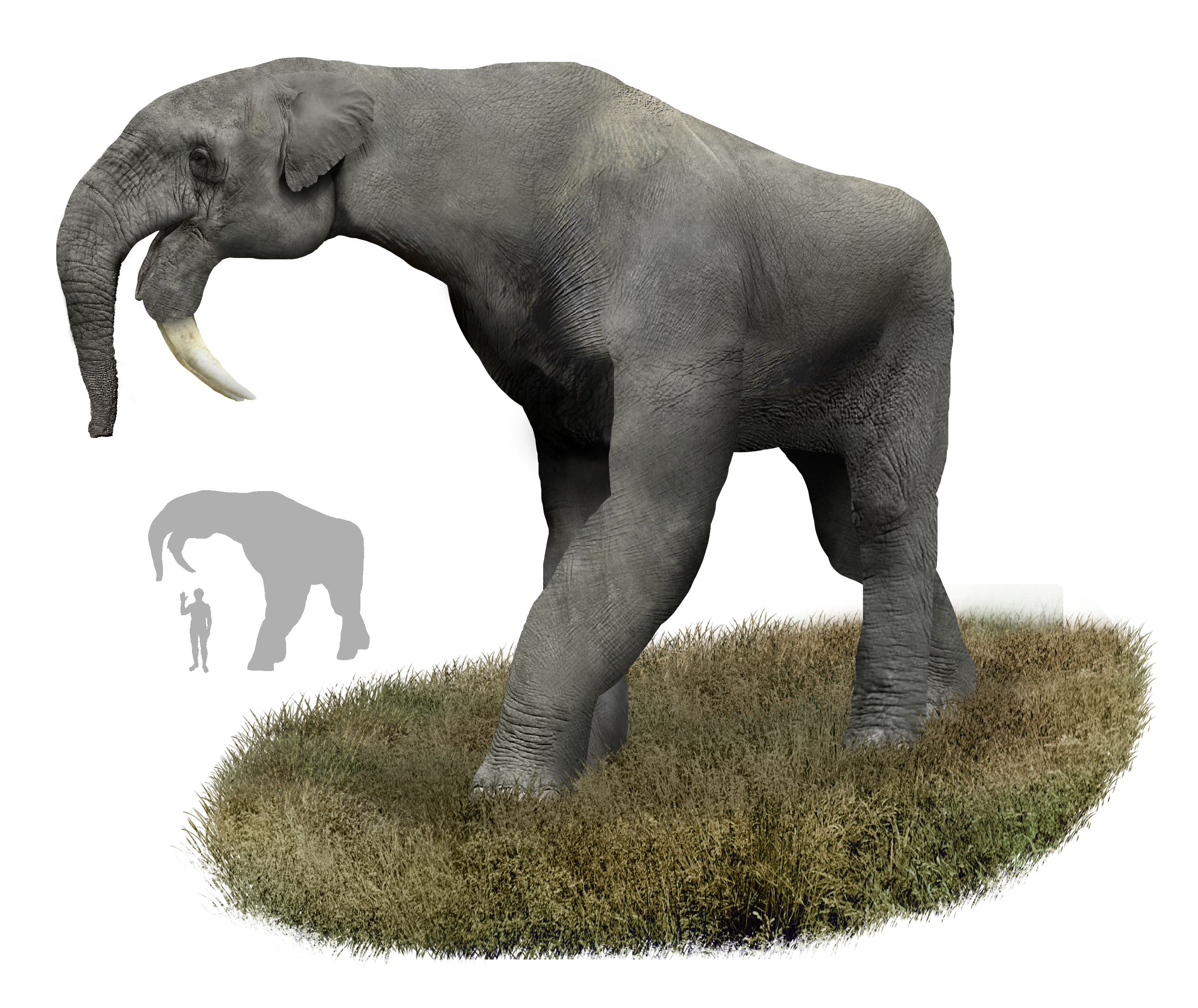 Artist's impression of a deinotherium.